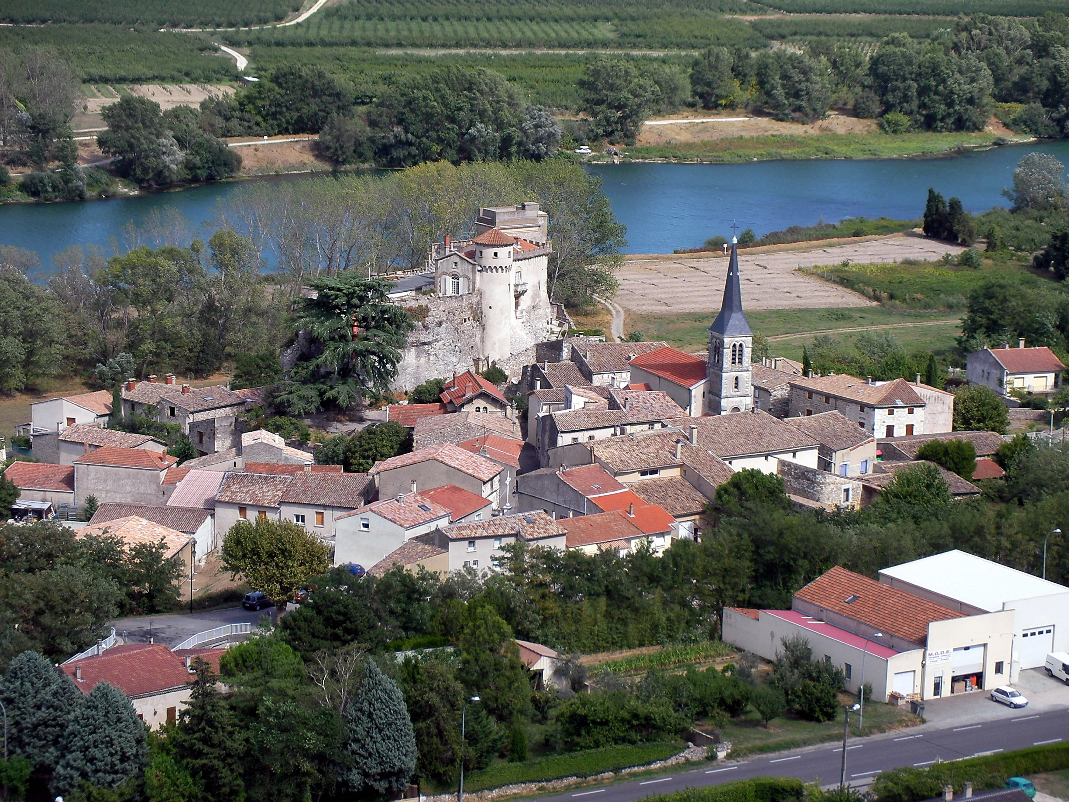 View of the Village Châteaubourg (Ardèche, France)